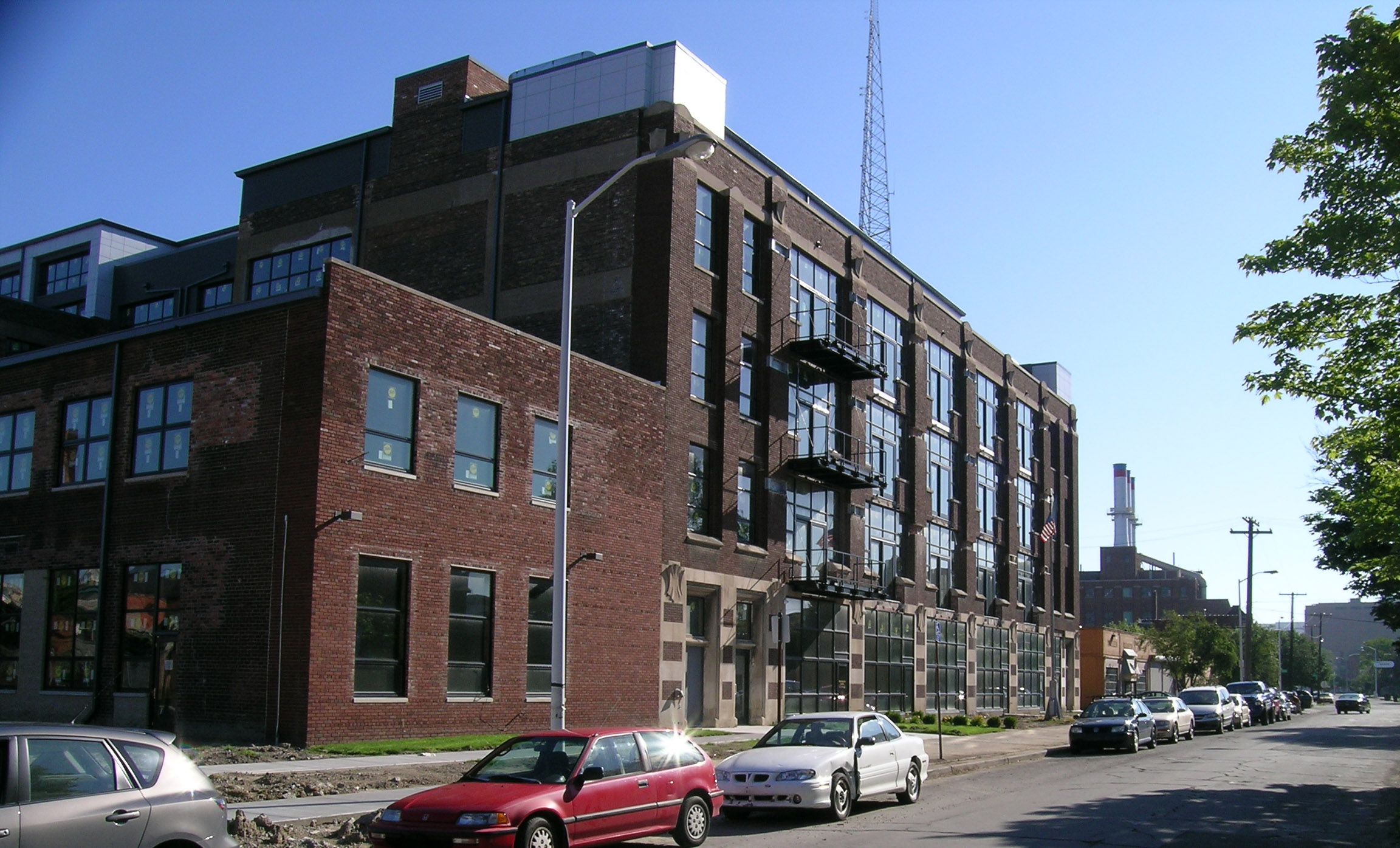 Willis Overland Lofts, on Willis in Detroit MI. Historic district contributing property.